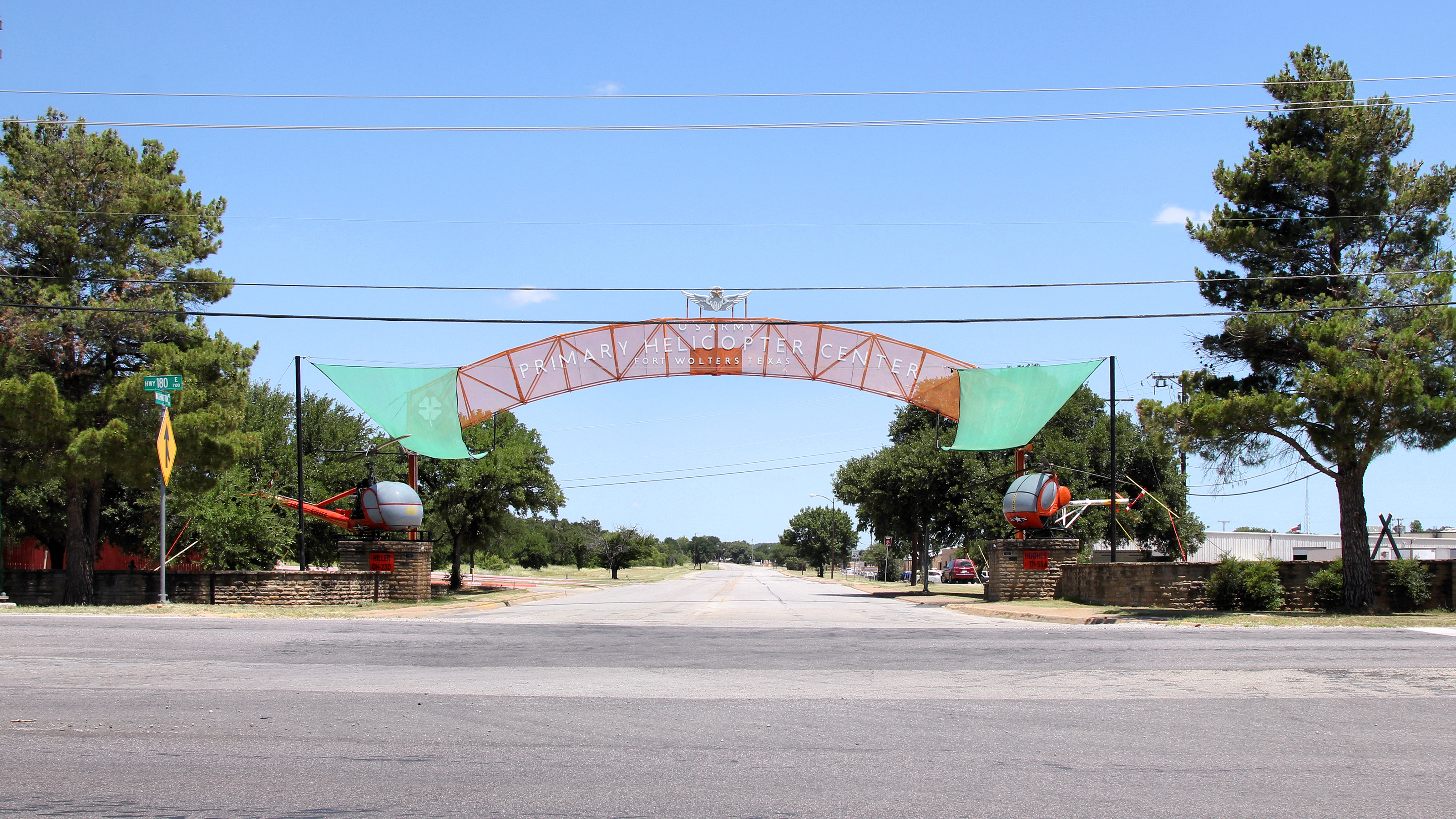 The rock work on the entrance gate to Fort Wolters was done by the Works Progress Administration circa 1940.